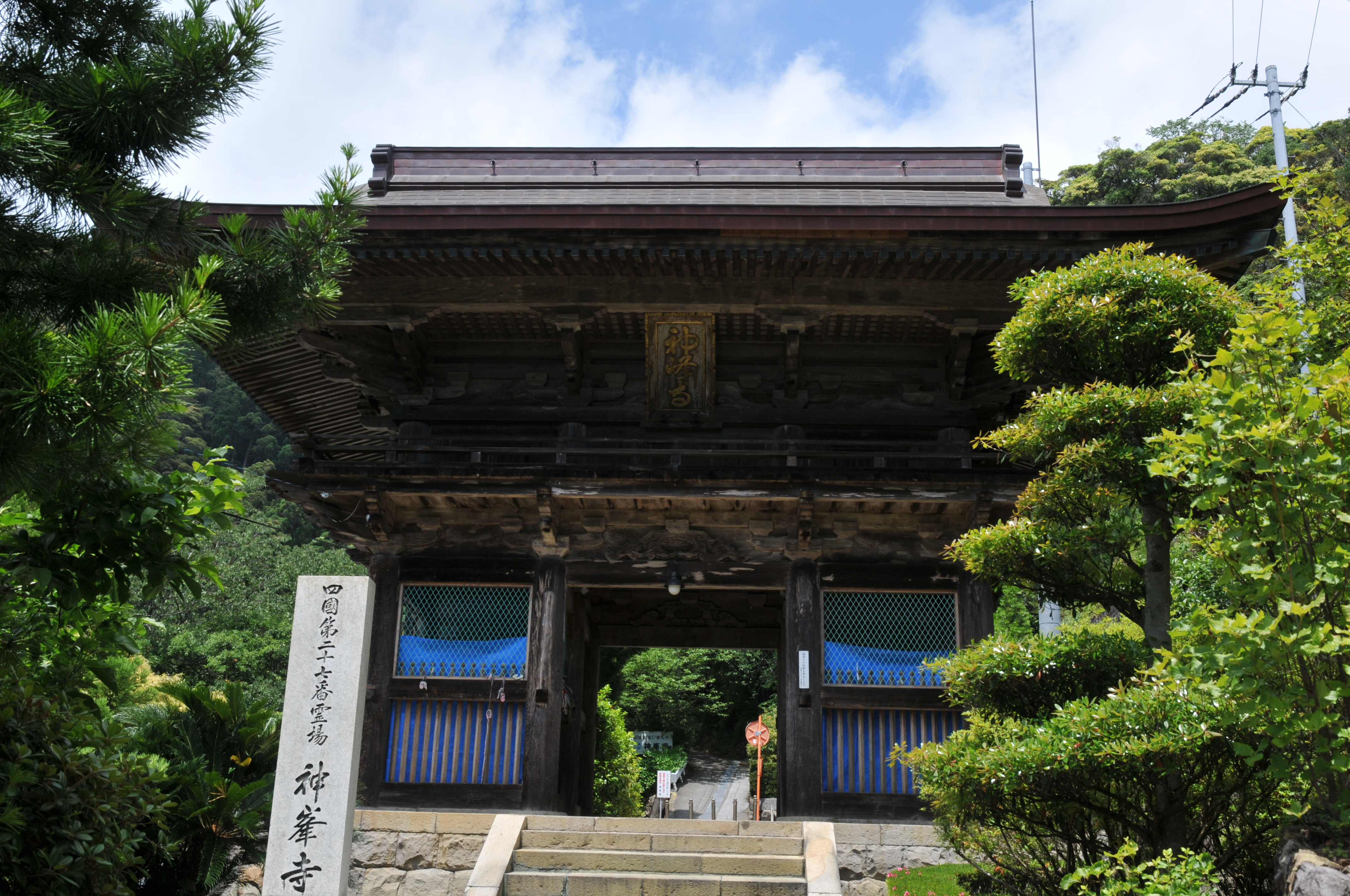 Temple gate, Kounomine-ji